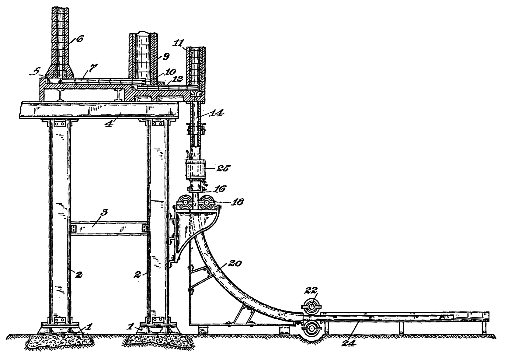 Drawing n°2 of the patent from John T. Rowley about continuous casting of steel.